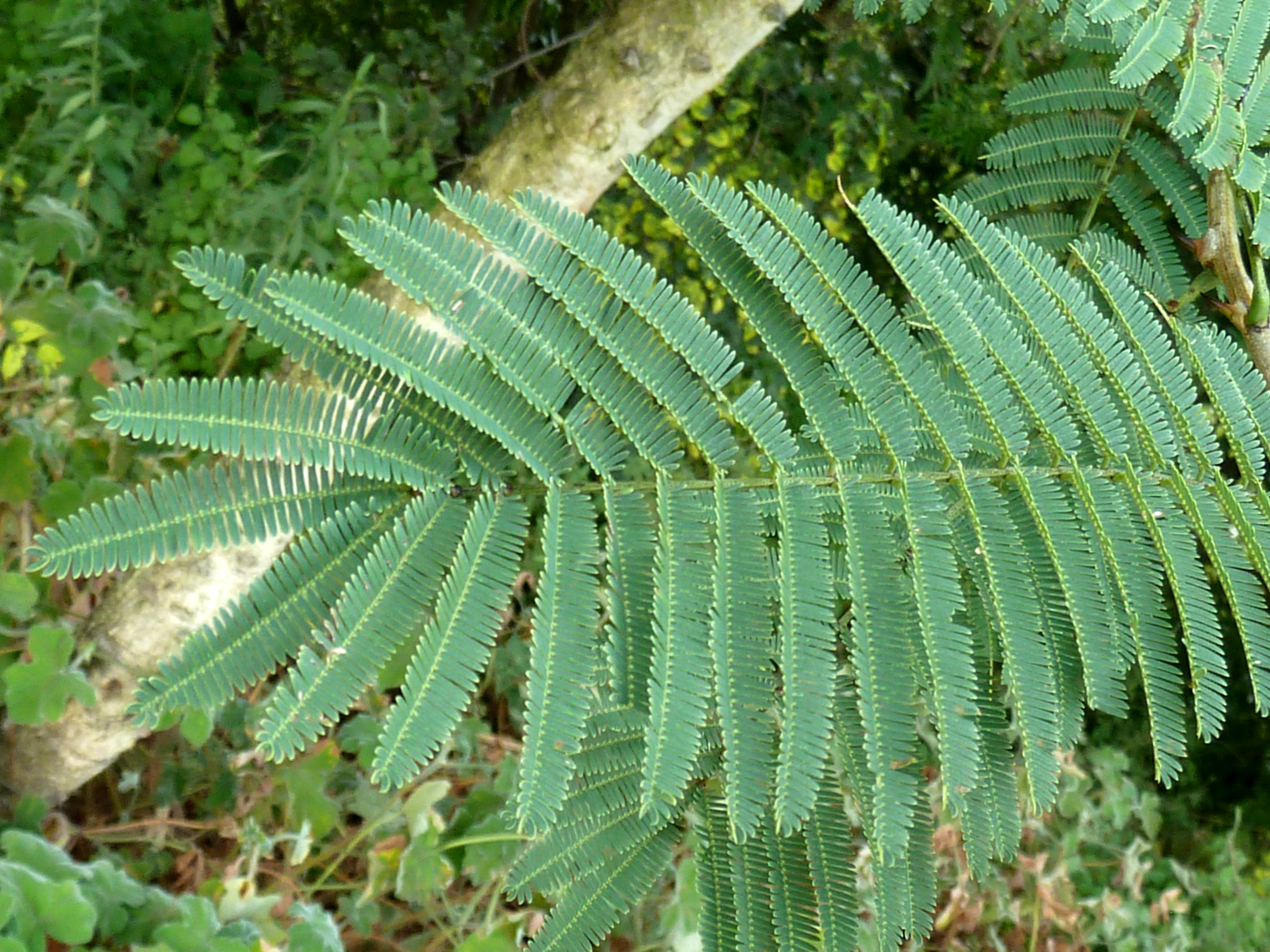 Bipinnately compound leaf of a White thorn in the Walter Sisulu National Botanical Garden in Roodepoort, South Africa